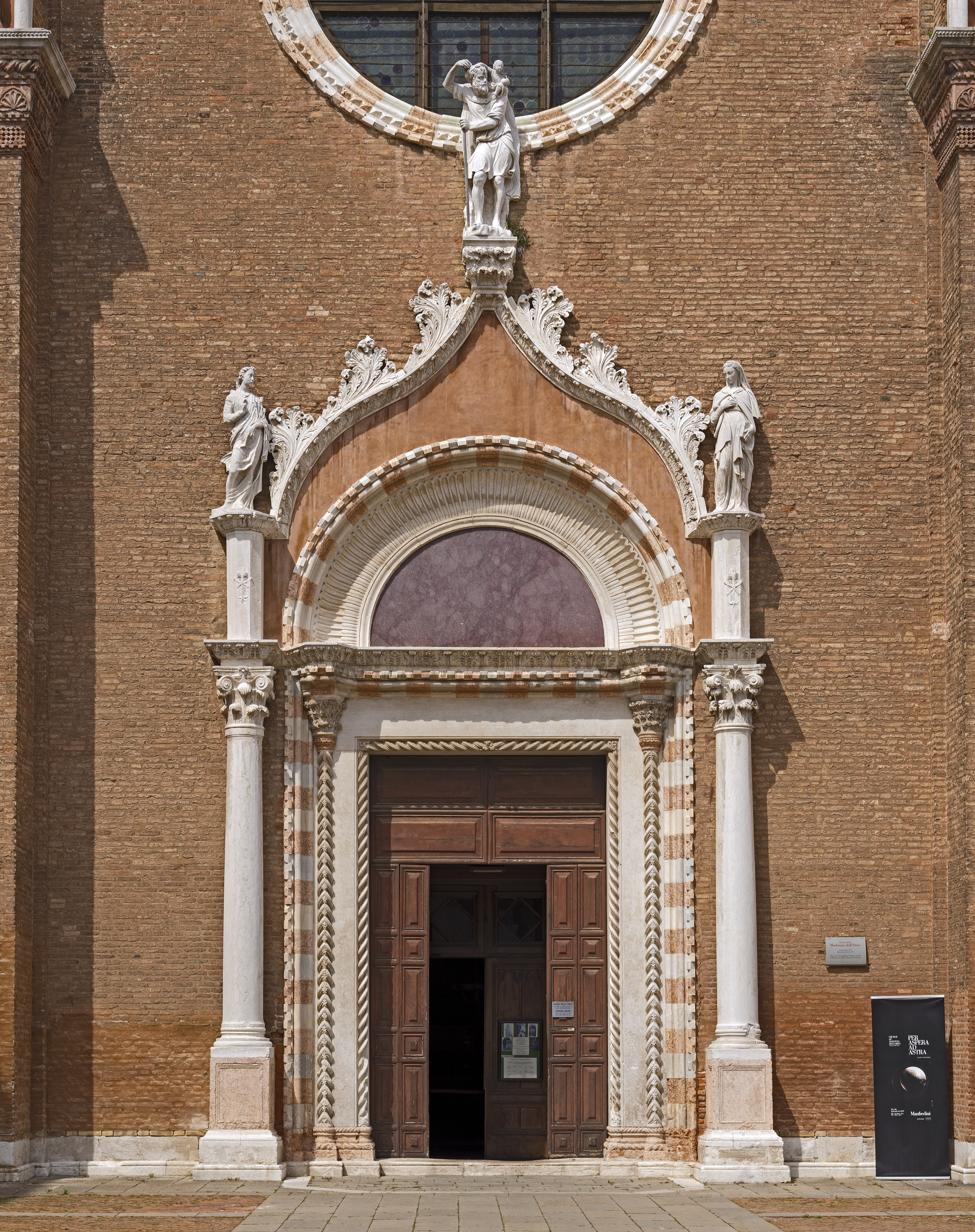 Madonna dell'Orto, Venice. Portal by Bartolomeo Bon. At the top: St. Christopher by Nicolò di Giovanni Fiorentino, right Archangel Gabriel by Nicolò di Giovanni Fiorentino, left Virgin Mary by Antonio Rizzo.